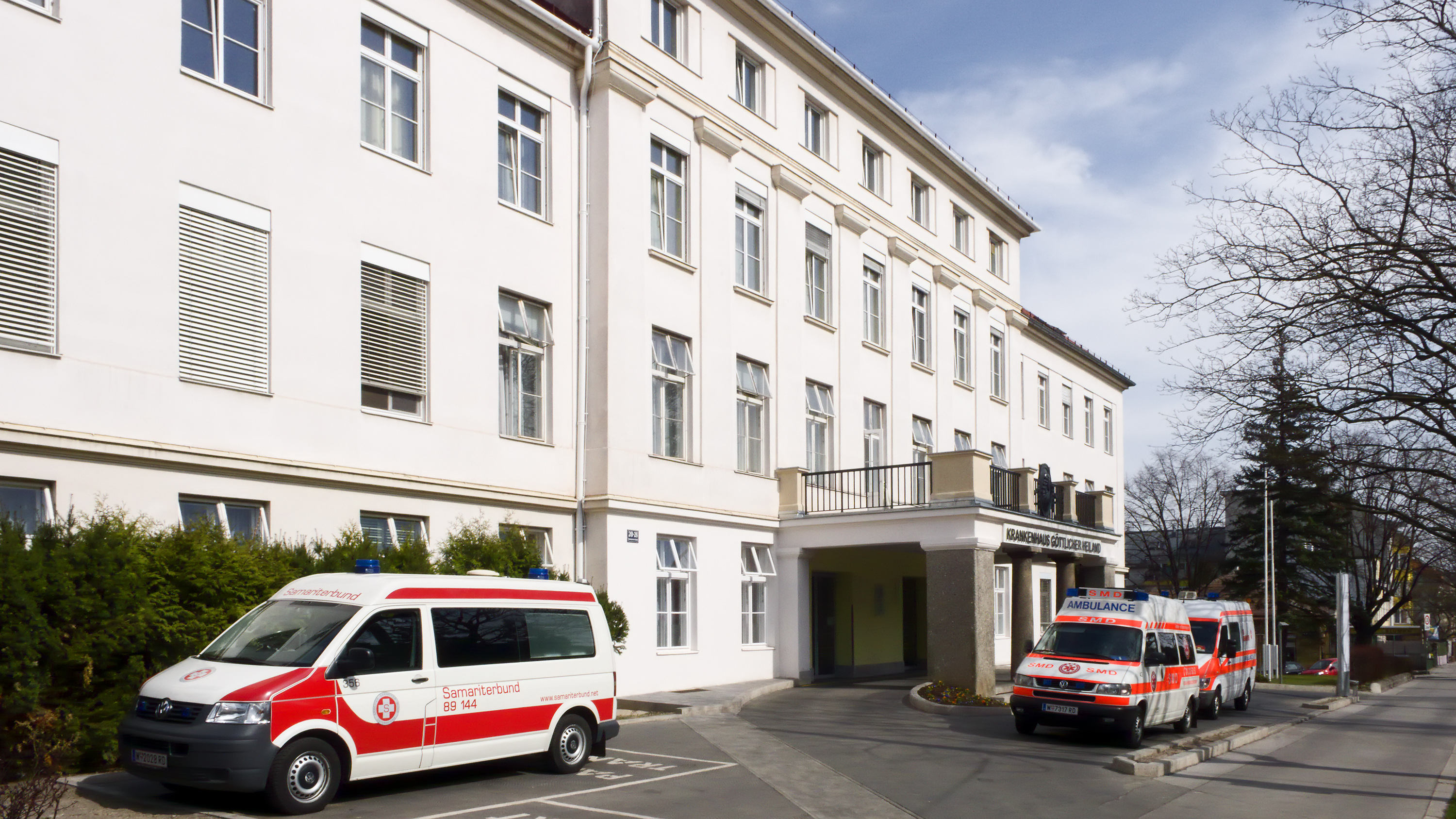 Hospital Krankenhaus Göttlicher Heiland in Vienna Hernals